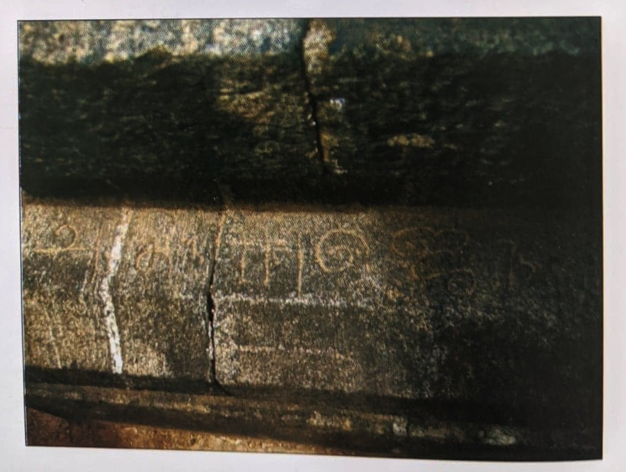 Vanavanmatevi-isvaram inscription, 11th century AD